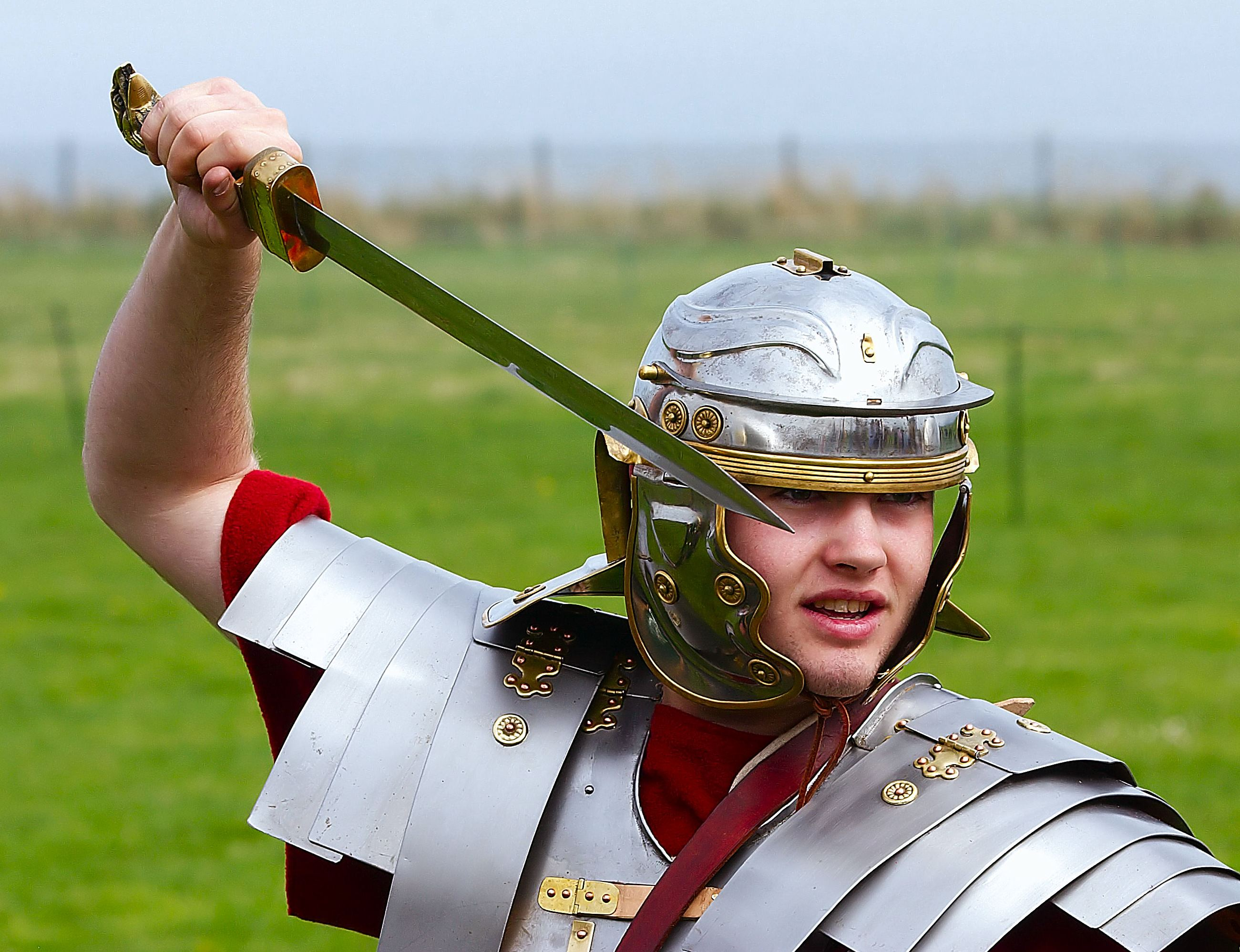 Image taken at the display of Roman Army Tactics Scarborough Castle UK Aug-07